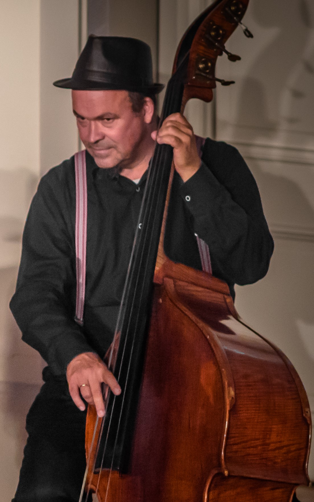 Foaie Verde at museum art.plus, Donaueschingen, Germany